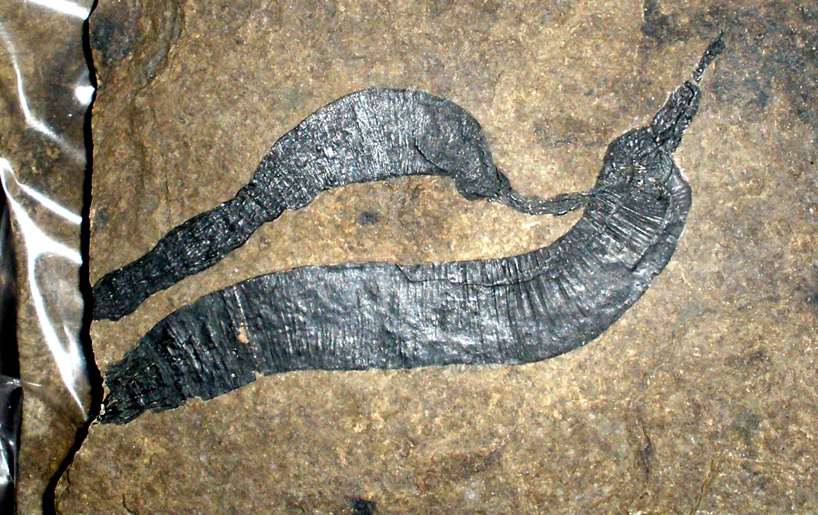 Fossil of Lecthaylus gregarius, an extinct supunculan worm Took the photo at Museo di Storia Naturale, Milano